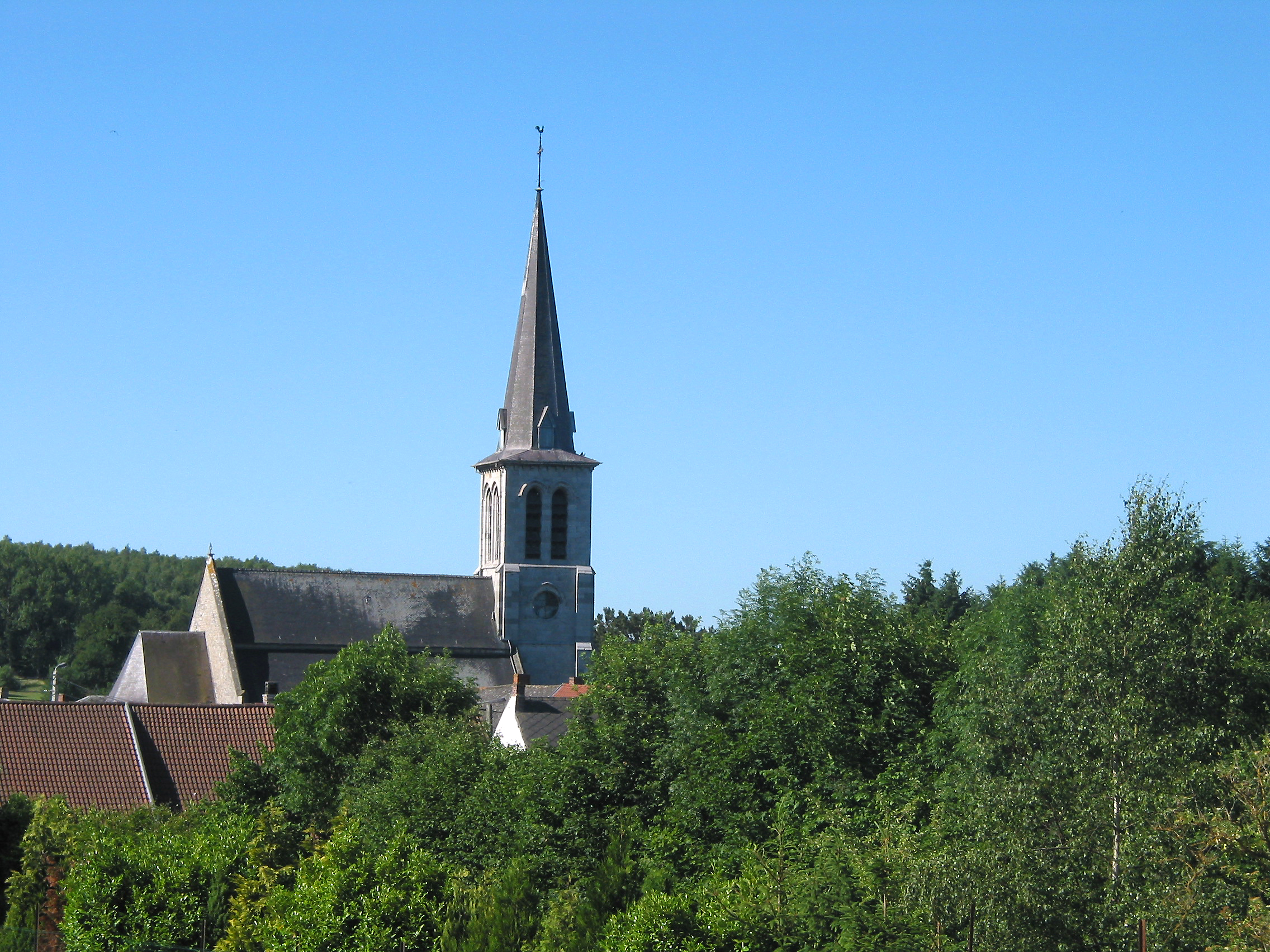 Montignies-Saint-Christophe (Belgium), the Saint Christopher’s church (XVth century).